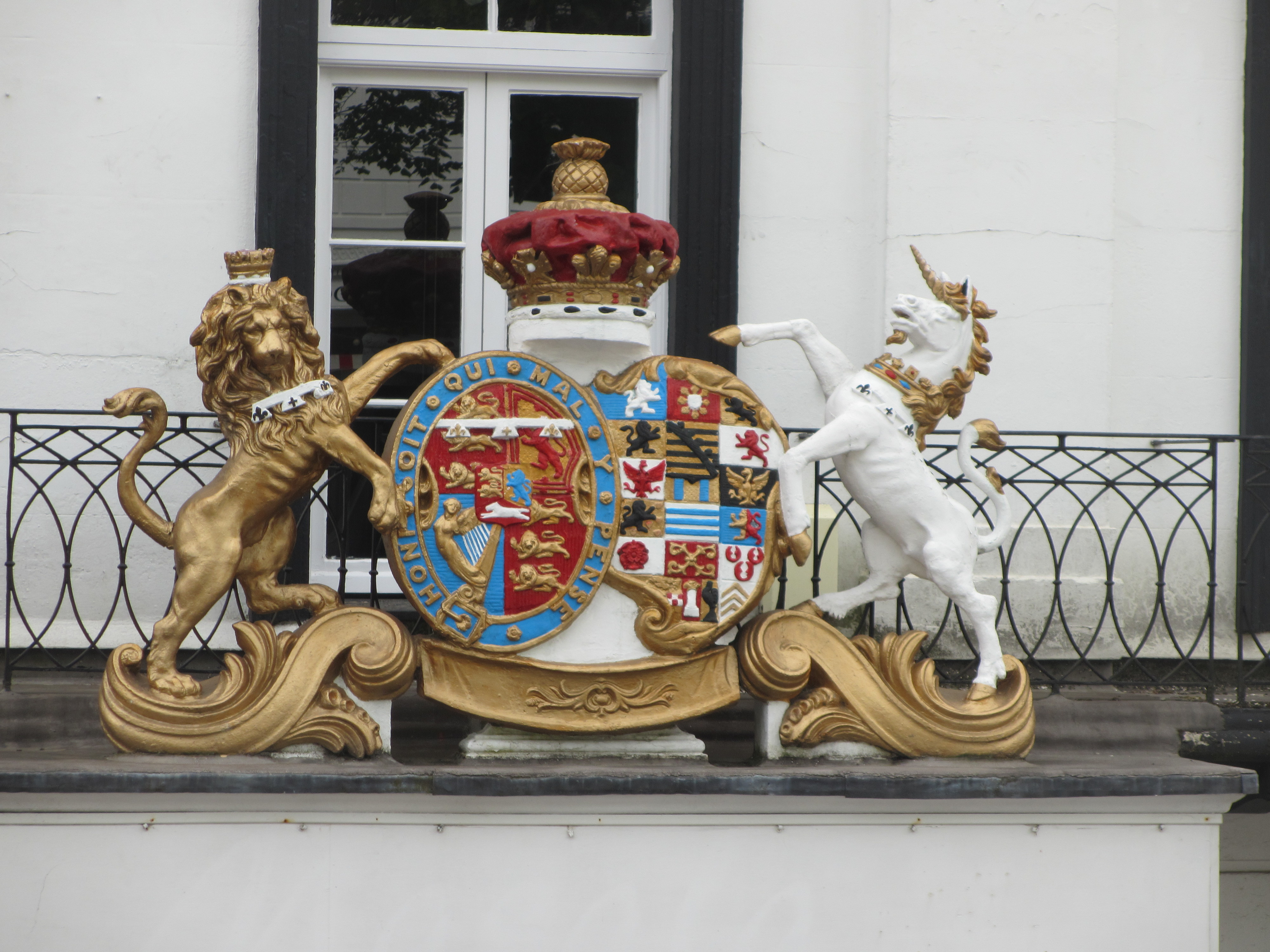 On the left hand the Royal Arms of Great Britain and Ireland, on the right hand the coat of arms of the house of saxe-Coburg-Saalfeld